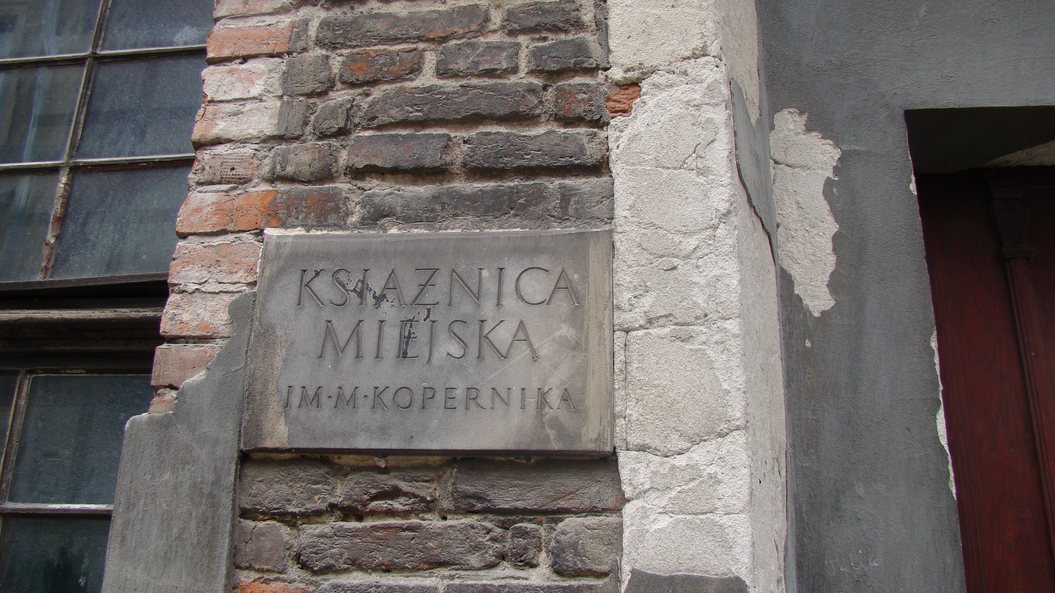 Franciszkańska Street in Toruń